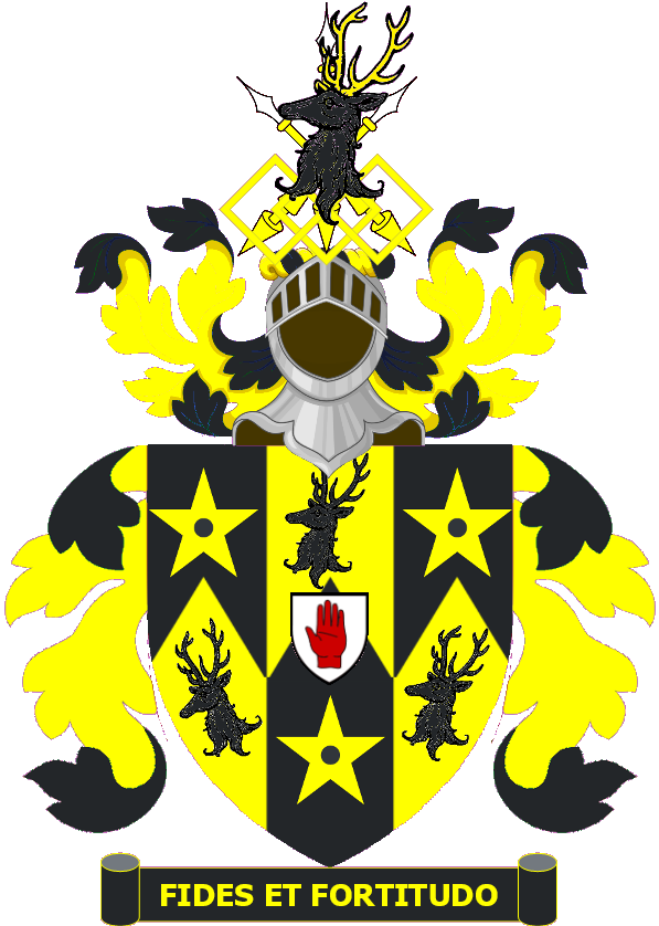 The armorial achievement of the Ropner baronets of Preston Hall